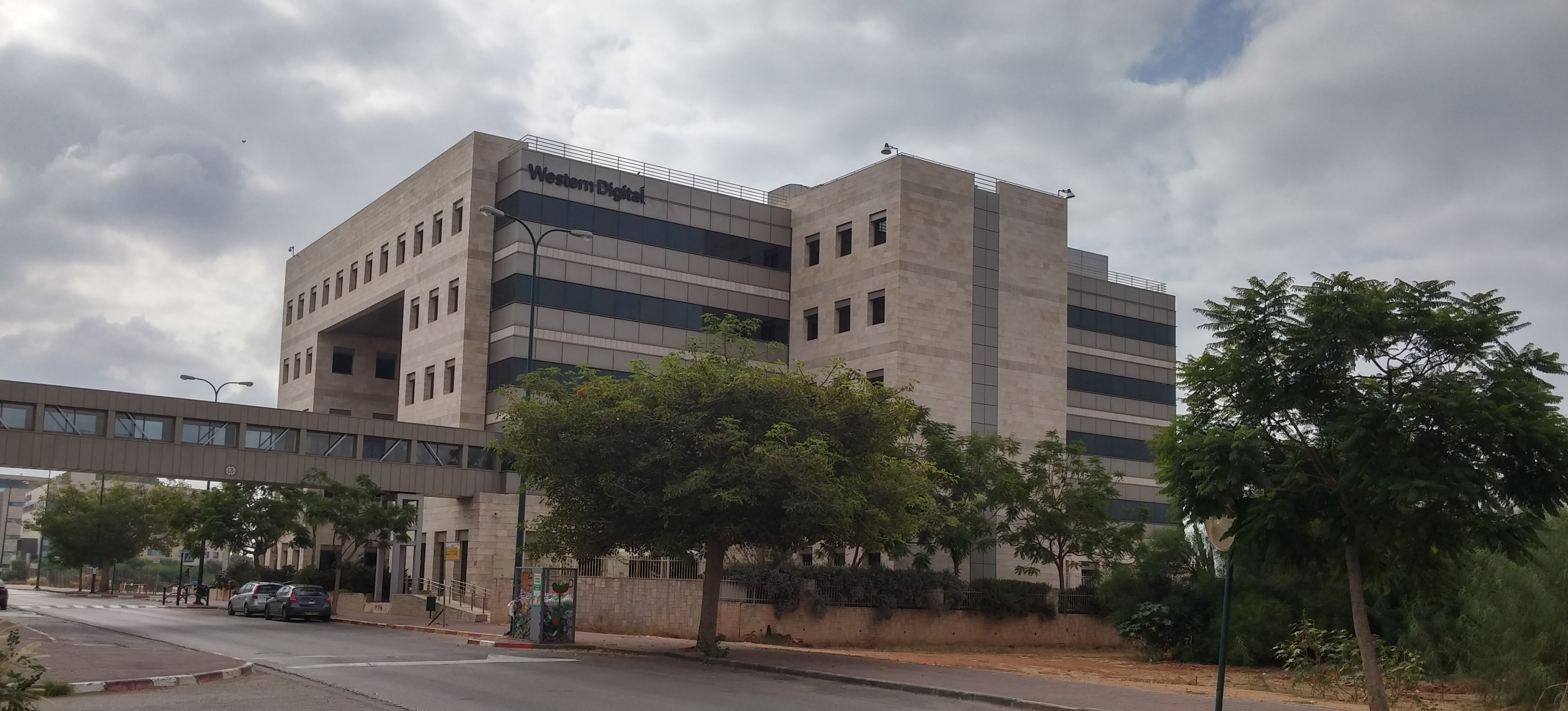 Western Digital factory in Kfar Saba